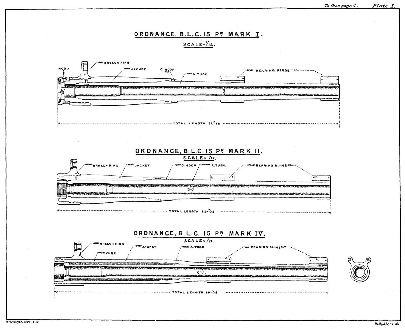 Diagrams show barrel construction and dimensions of British BLC 15-pounder field gun Marks I, II and IV.